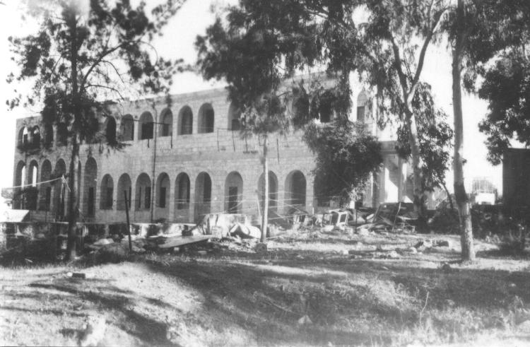 Lydda Mandate Police HQ used by the Harel Brigade as a training base, 1948